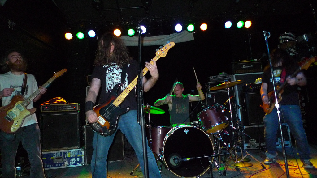 Red Fang